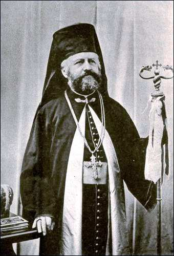 Victor Mihaly de Apșa (1841–1918), Bishop of the Diocese of Lugoj of the Romanian Greek Catholic Church from 1874 to 1894 Archbishop of the Archdiocese of Făgăraş şi Alba Iulia of the Romanian Greek Catholic Church from 1894 to 1918.